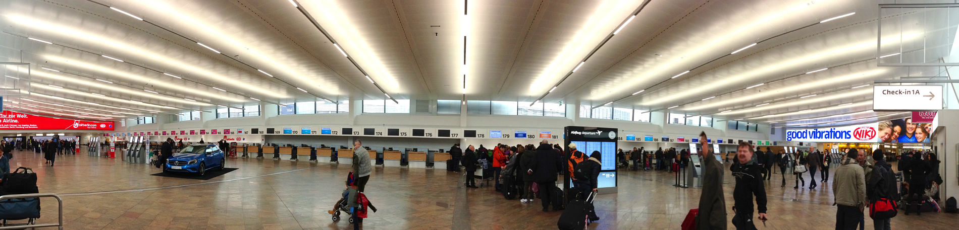 T2 VIE